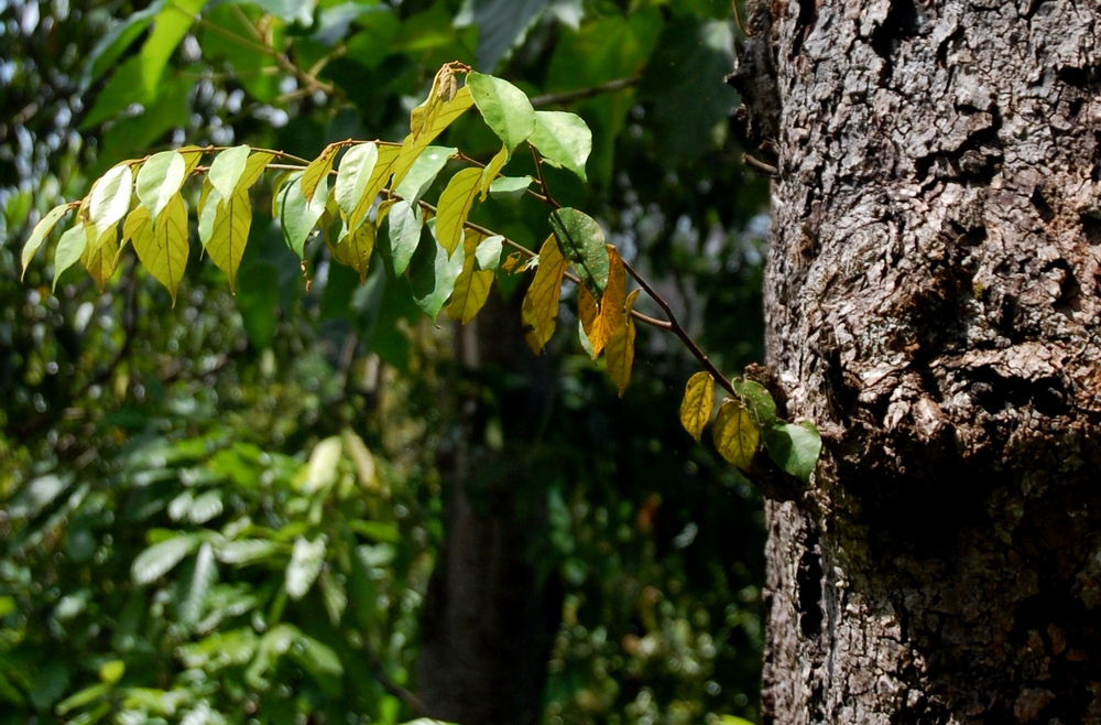 Pterospermum javanicum, bark and twig. Lombok, Lesser Sunda Islands.